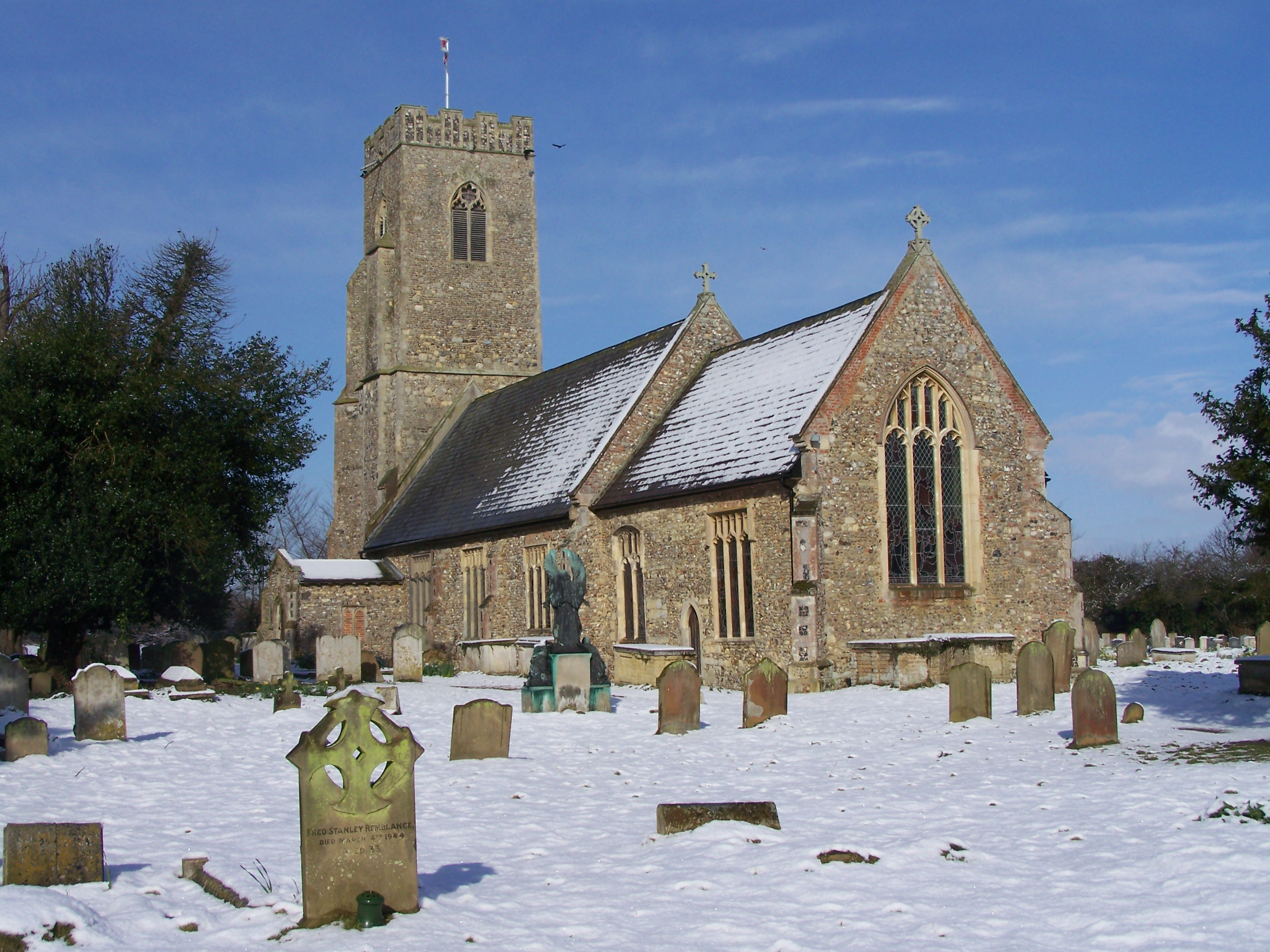 Parish church of St Margaret of Antioch, Reydon, Suffolk, England, seen from the southeast in snow